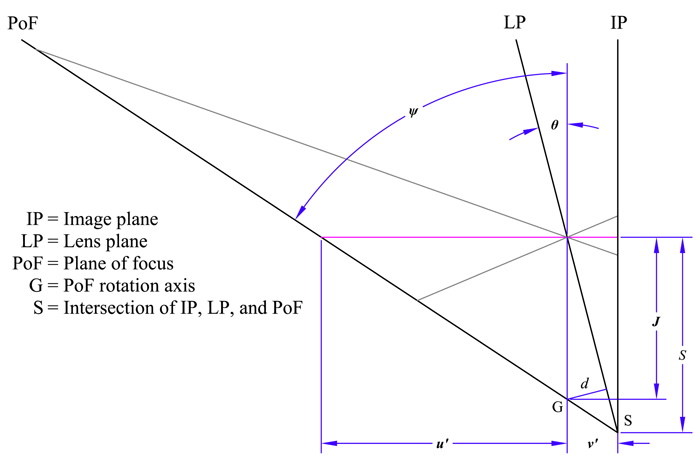 Diagram of camera with tilted lens plane, for showing derivations of plane-of-focus angle formulas and proof of the "hinge rule".